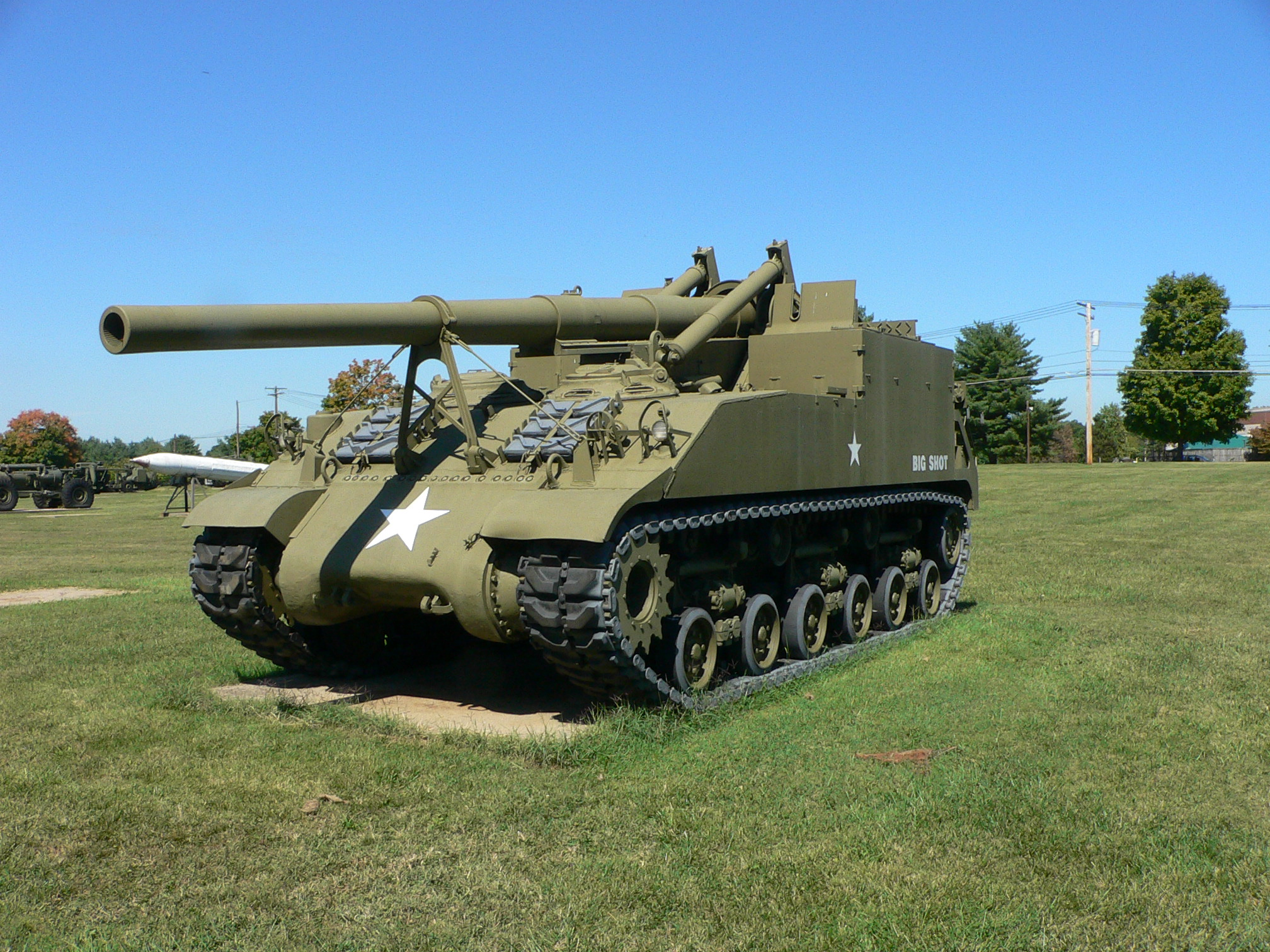 Picture taken by myself, Mark Pellegrini, at the United States Army Ordnance Museum (Aberdeen Proving Ground, MD)